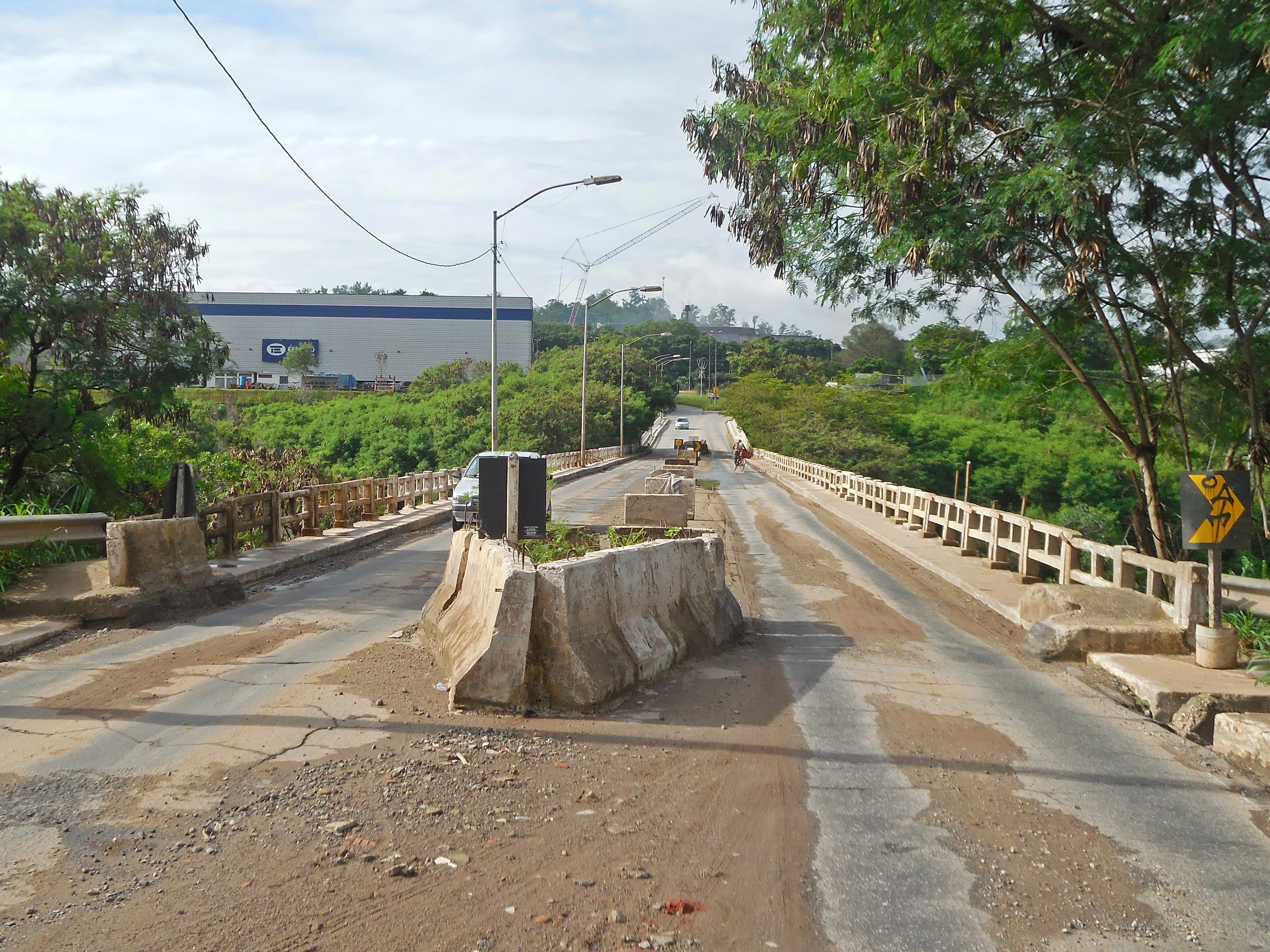 Head of the old bridge over the Piracicaba river in Coronel Fabriciano, Minas Gerais, Brazil.